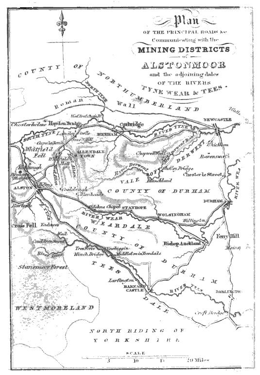 Map of the Alston Moor mining region in the north of England. From Thomas Sopwith, An account of the mining districts of Alston Moor, Weardale and Teesdale in Cumberland and Durham (1833).